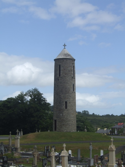 Round tower - Bruckless, near to Milltown, Bruckless, Calhaine, Ballyloughan and Dun Cionnaola, Donegal, Ireland. On a small mound next to the church.